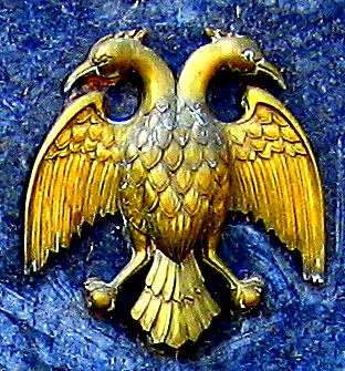 The Gandaberunda emblem in the Mysore Palace. This is now the official emblem of Karnataka state in India